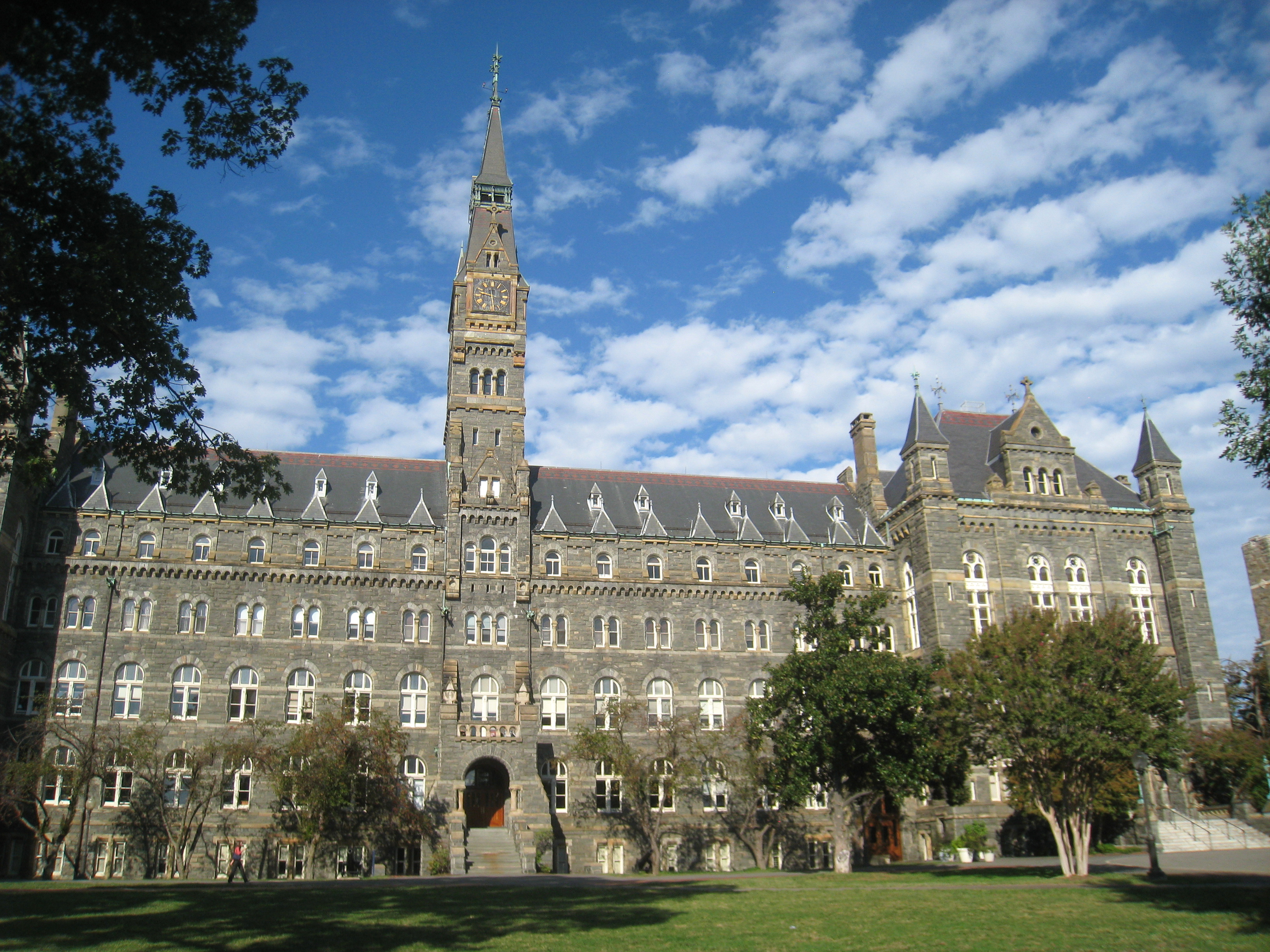 Georgetown University, Washington, DC, USA. Healy Hall.